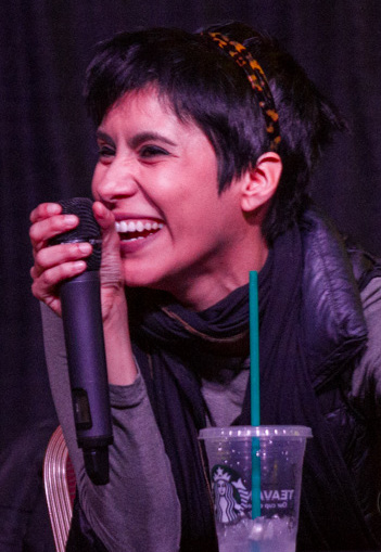 © LotsaSmiles Photography 2016 Christine Marie Cabanos and Cristina Vee at Newcon 5